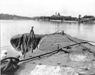 At the submarine base at New Farm, Brisbane, Australia, the main hull of the U.S. Navy submarine USS Growler (SS-215) is pointed towards the CSR Sugar Refinery across the Brisbane River but her battered bow is pointing towards Hawthorne. Following the collision with a Japanese patrol boat on 7 February 1943, Growler docked 17 February for extensive repairs. Following the refit, the submarine was nicknamed the "Kangaroo Express", as the refabricated bow had two nickel kangaroos as decorations.